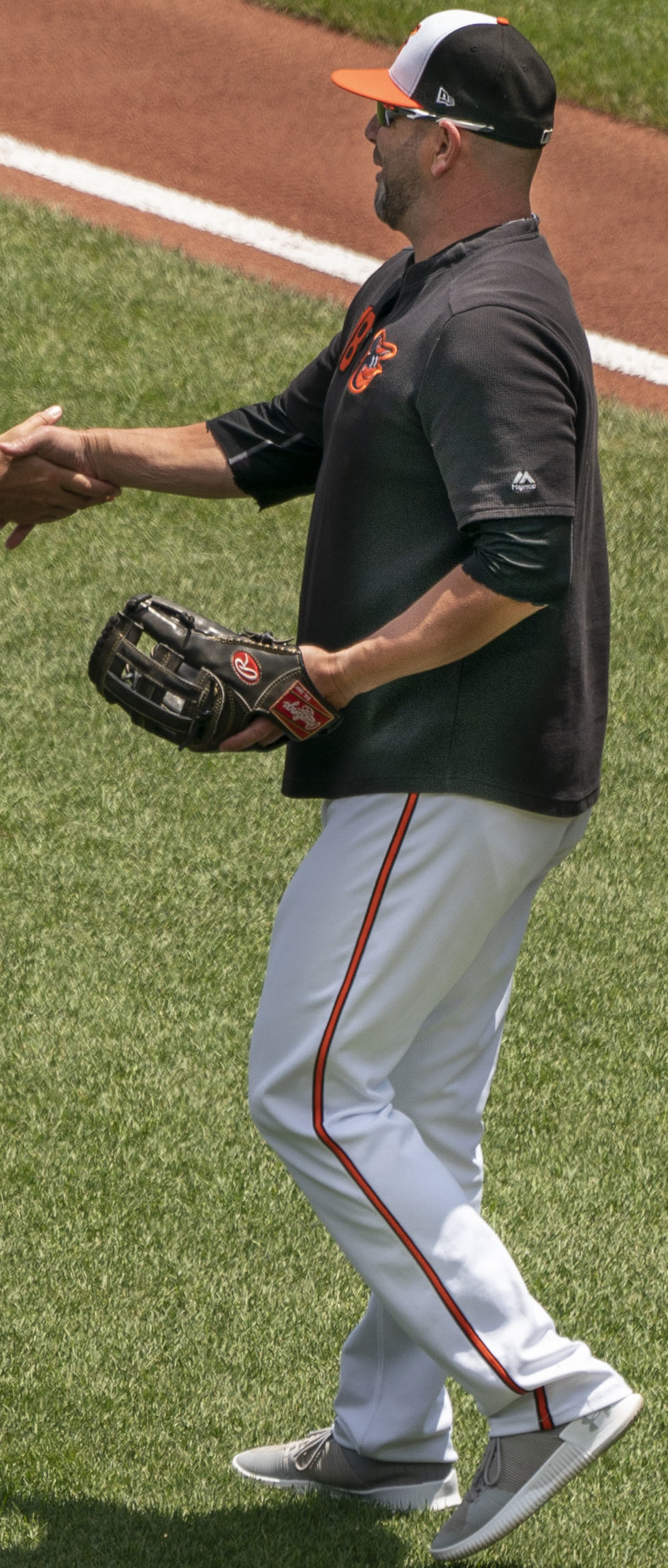 Former Baltimore Orioles pitcher Mike Mussina shakes the hand of current manager Brandon Hyde after throwing out the ceremonial first pitch before a game between the Cleveland Indians and Baltimore Orioles at Oriole Park at Camden Yards on June 30, 2019 in Baltimore, Maryland.